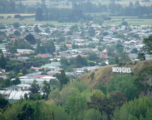 en